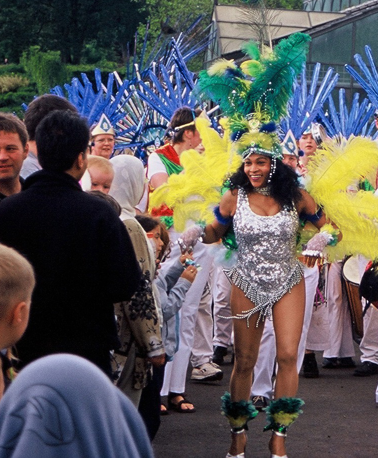 Procession of Glasgow's West End Festival in mid-2002 as seen in the Botanical Gardens (just off Byres Road).